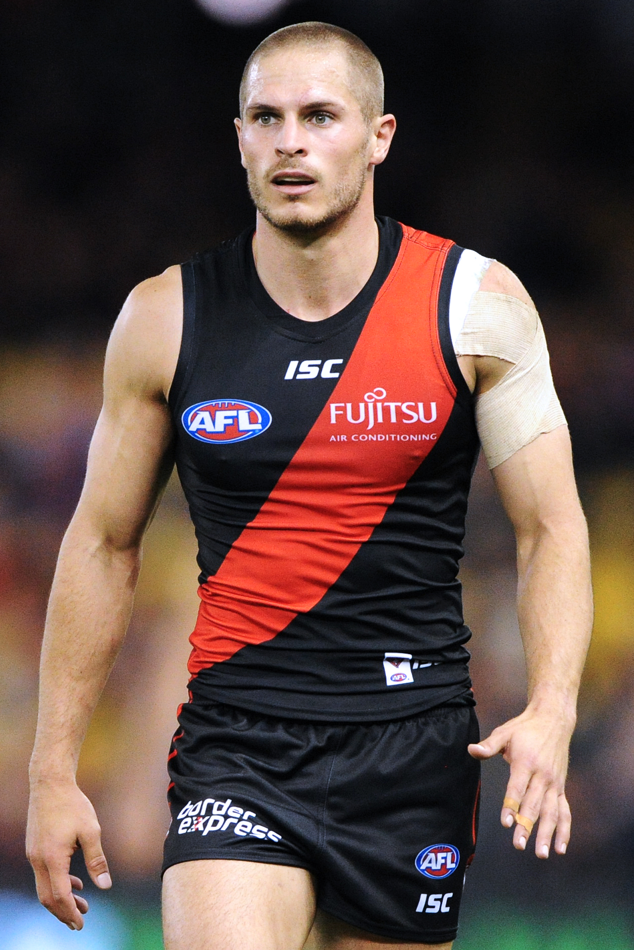 David Zaharakis of Essendon during the 2018 AFL round 6 match between Essendon and Melbourne at Etihad Stadium on Sunday, 29 April 2018 in Melbourne, Victoria.